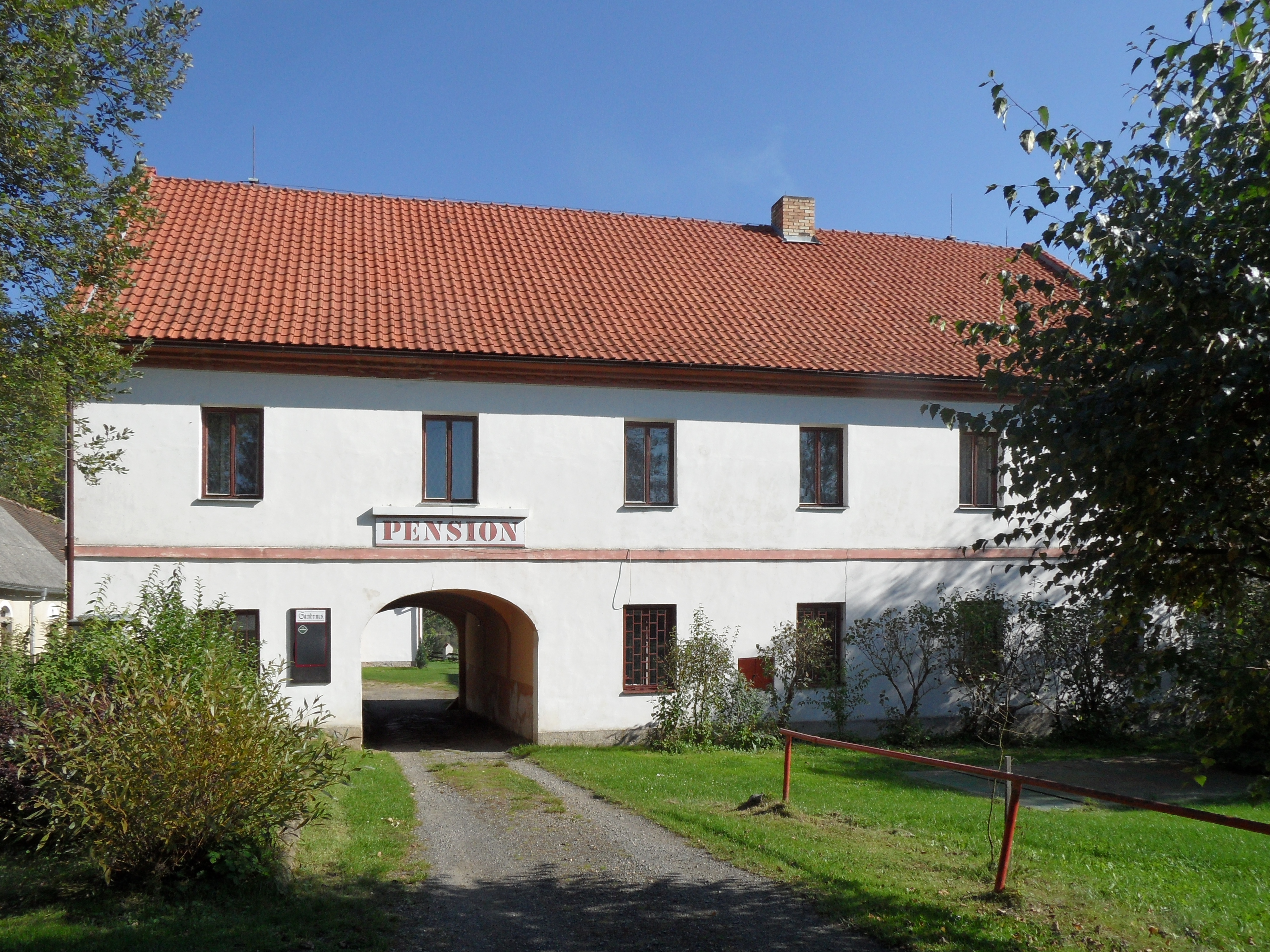 Buda (Horka_II) A. Former Watermill No. 10, now pension, Kutná Hora District, the Czech Republic.